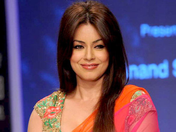 Mahima and Perizaad walk the ramp for Adorn at IIJW 2011